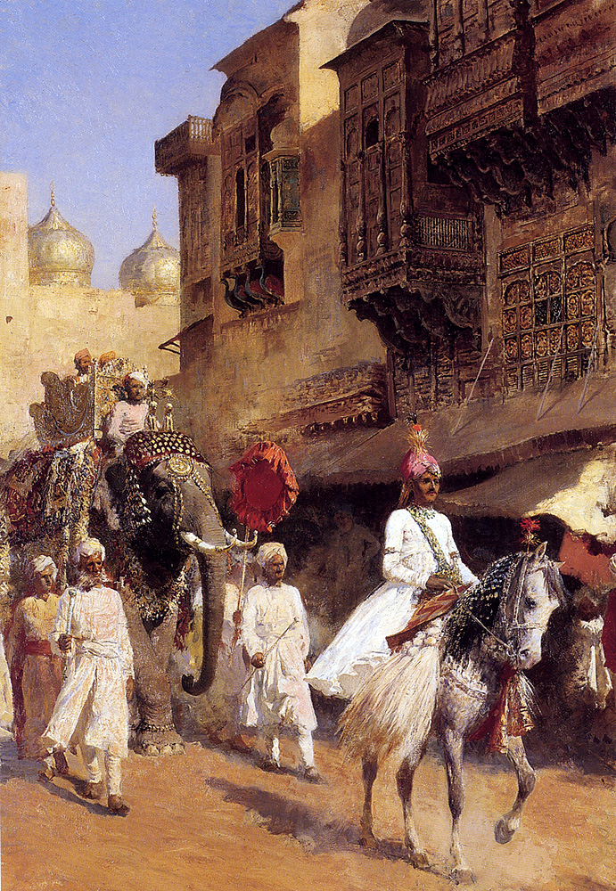 He was born at Boston, Massachusetts, in 1849. He was a pupil of Léon Bonnat and of Jean-Léon Gérôme, at Paris. He made many voyages to the East, and was distinguished as a painter of oriental scenes. [1] Weeks' parents were affluent spice and tea merchants from Newton, a suburb of Boston and as such they were able to accept, probably encourage, and certainly finance their son's youthful interest in painting and travelling. As a young man Edwin Lord Weeks visited the Florida Keys to draw and also travelled to Surinam in South America. His earliest known paintings date from 1867 when Edwin Lord Weeks was eighteen years old, although it is not until his Landscape with Blue Heron, dated 1871 and painted in the Everglades, that Weeks started to exhibit a dexterity of technique and eye for composition—presumably having taken professional tuition. In 1895, he wrote and illustrated a book of travels, From the Black Sea through Persia and India, and two years later he published Episodes of Mountaineering. He died in November 1903. He was a member of the Légion d'honneur, France, an officer of the Order of St. Michael, Germany, and a member of the Secession, Munich.[1] Gallery